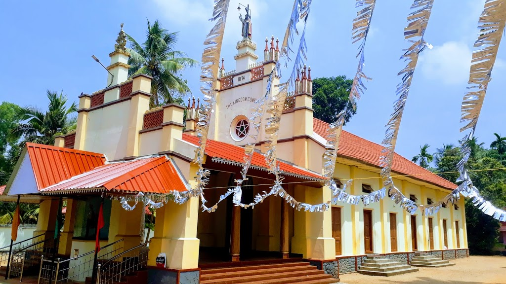 Image of St. Joseph's Church